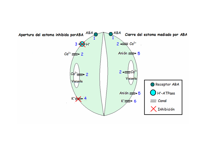 Membrane transport processes in stomatal closure.